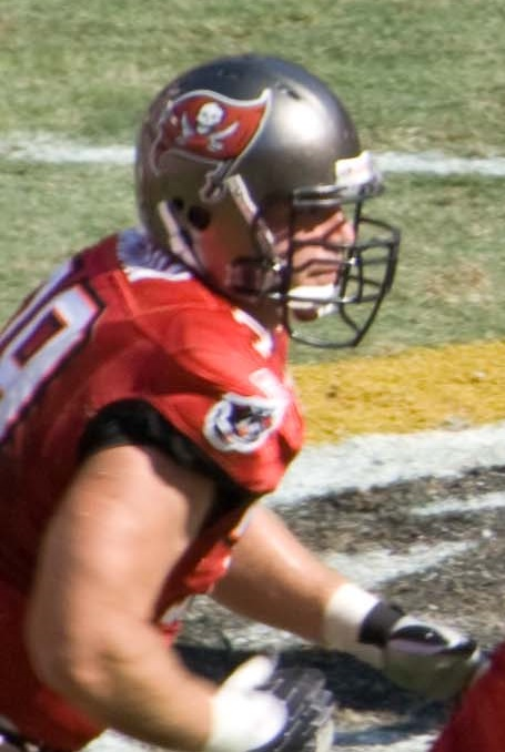 Tampa Bay Buccaneers tight end Jerramy Stevens blocks Washington Redskins defensive end Lorenzo Alexander, while Tampa center Sean Mahan runs by, in the October 7, 2009 game between the two teams at FedExField of Landover, Maryland.